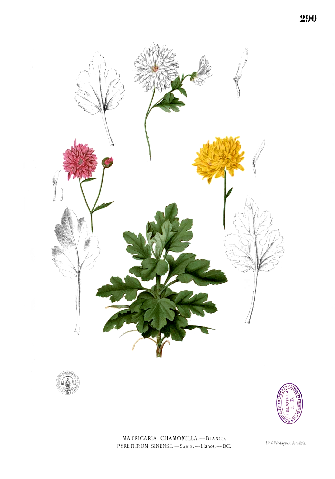 Plate from book